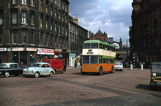 British Trolleybuses - Glasgow. On its way south to Clarkston on route 105, trolleybus TB116 is about to cross the Clyde at Victoria Bridge. It would have only a few more hours of life - this was the last day of trolleybus operation in Glasgow. Many such closures seemed to take place in dull or rainy conditions - this was an exception. In the background can be seen the bridge over Stockwell Street carrying the railway lines out of St. Enoch Station. It has completely disappeared, as seen in 943601. Particularly noticeable is the general blackness of the buildings in 1967. This was typical of large towns and was the result of years of smoke laden atmosphere resulting from domestic and industrial burning of coal. For a slide show of British Trolleybuses in the late 60s, Trolleybus TB116 was a BUT 9613T, built in 1957/58.